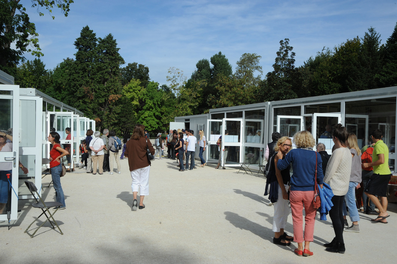 Collection de collections, 2013, Grenoble